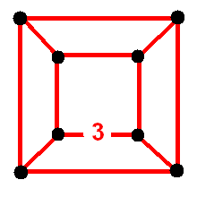 24-cell vertex figure